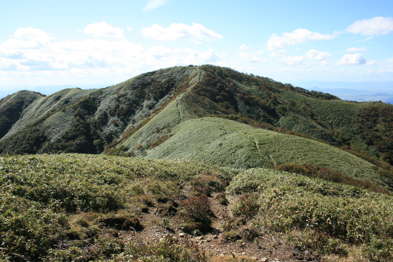 Mount Amagoi from Moun Higashiamagoi